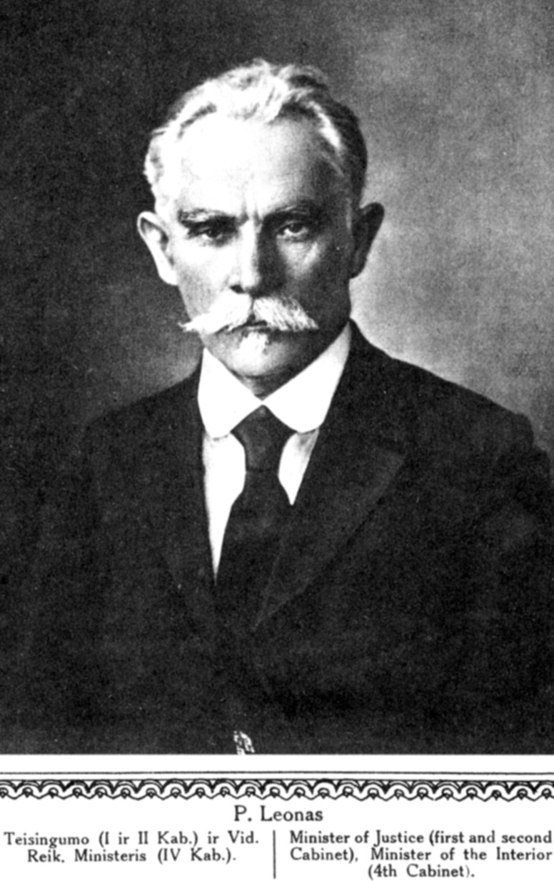 Petras Leonas, member of State Duma of the Russian Empire, Lithuanian lawyer, minister, professor